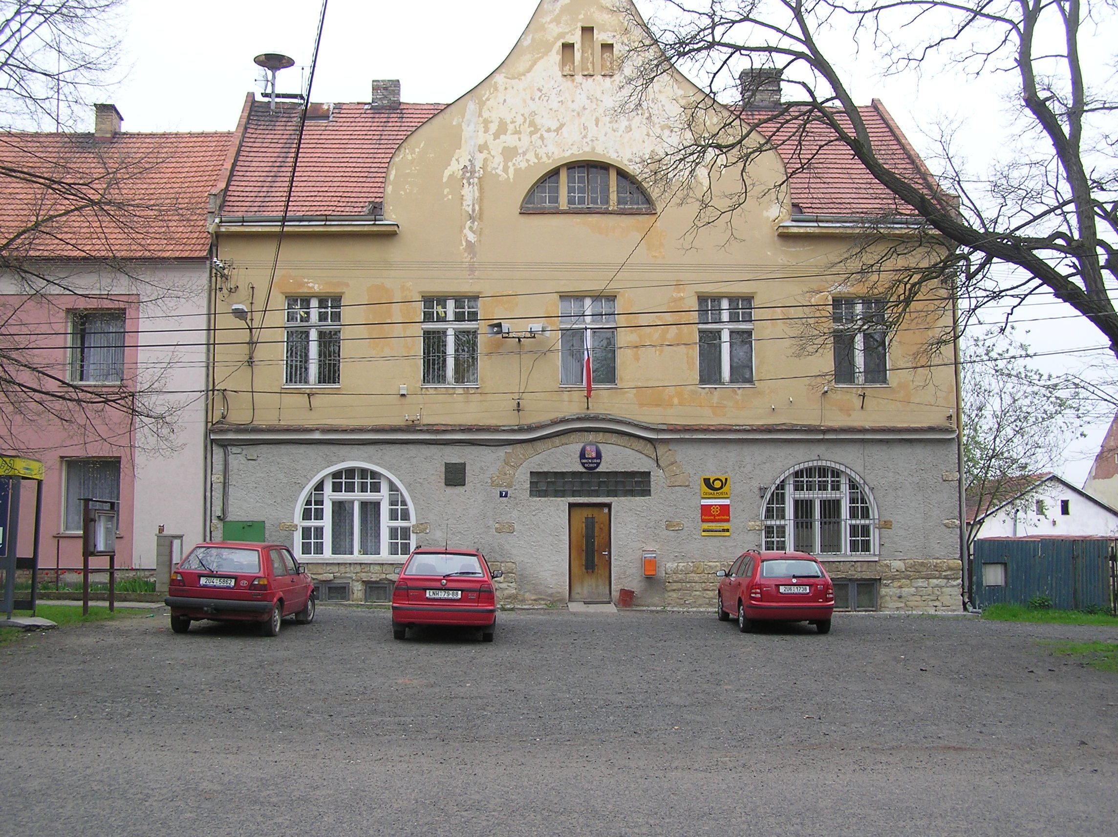 Municipality house in Očihov